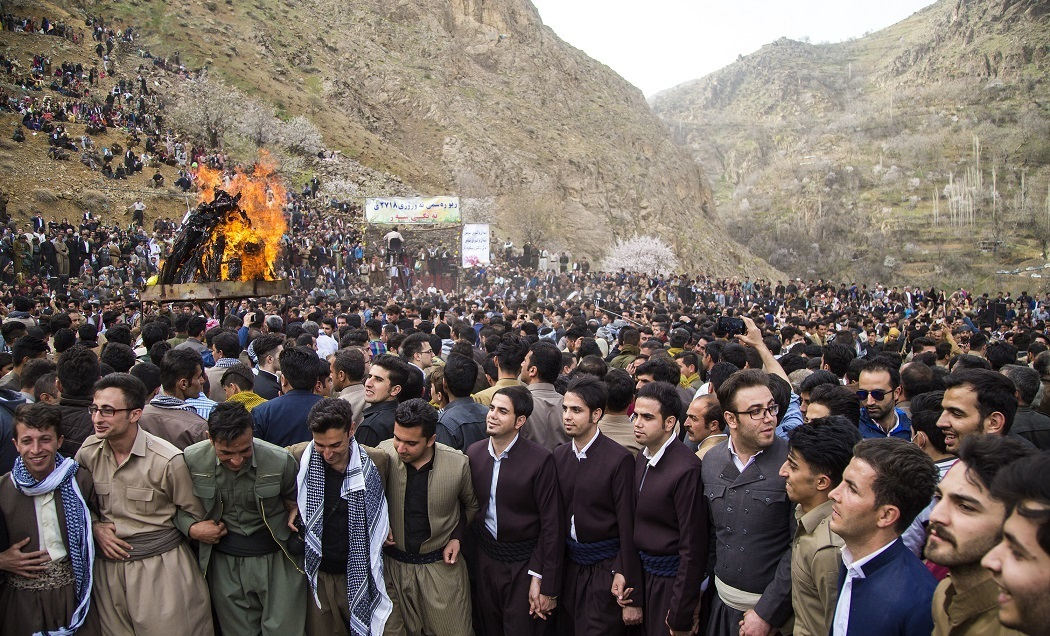 Iranian Kurdish people celebrating Nowruz 2018, Tangi Sar village. see full galley